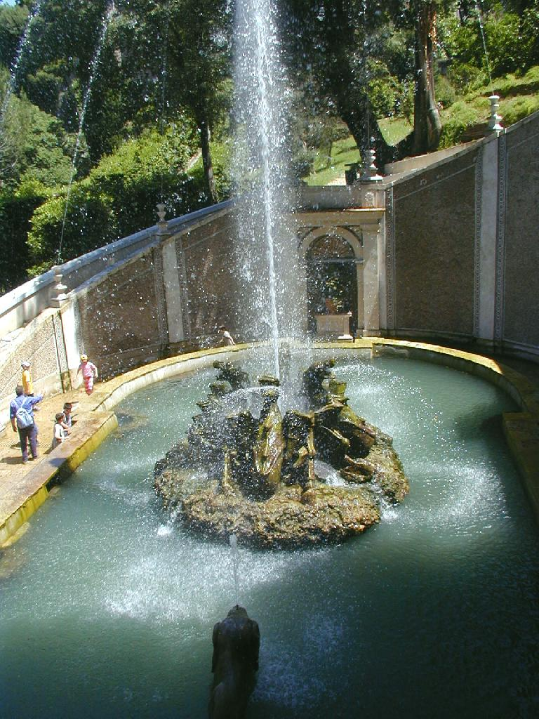 Tivoli, Villa d'Este: Fountain of the Dragons